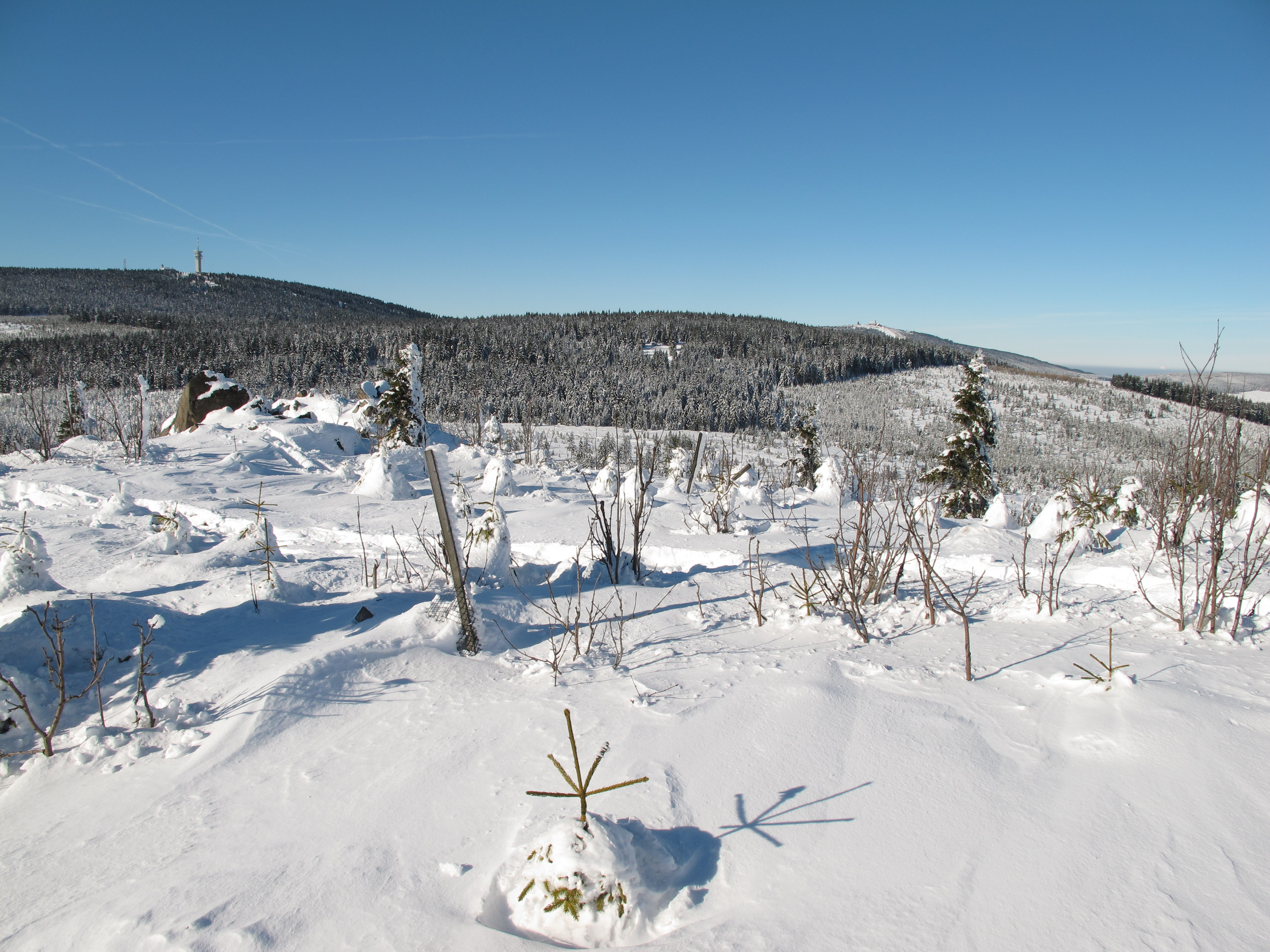 Ore Mountains: Macecha and Klínovec from Meluzína